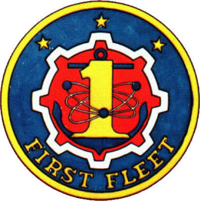 Insignia of the United States First Fleet, 1970. The First Fleet was a unit of the United States Navy, in operation from as early as 1946 (but definitely active by 1948 as the First Task Fleet) to 1 February 1973 in the western Pacific Ocean as part of the Pacific Fleet. In 1973, it was disestablished and its duties assumed by the Third Fleet.